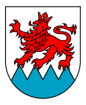 Coat of arms of the quarter of Grünwettersbach in Karlsruhe.